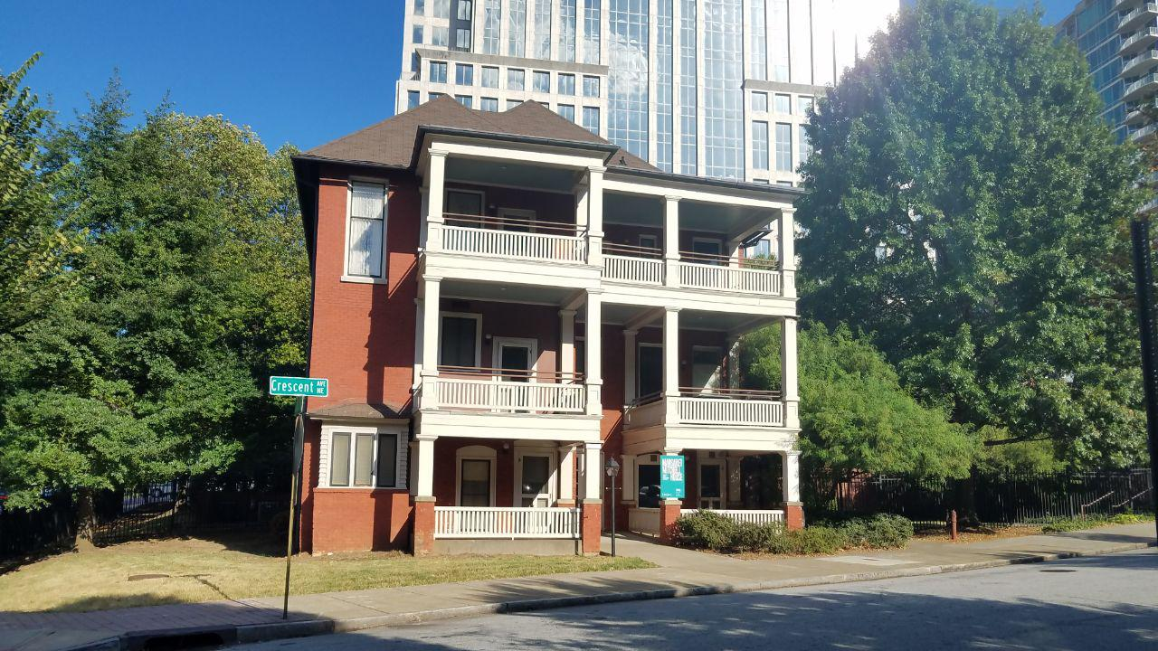 Rear entrance of the Margaret Mitchell House in Atlanta, Georgia.